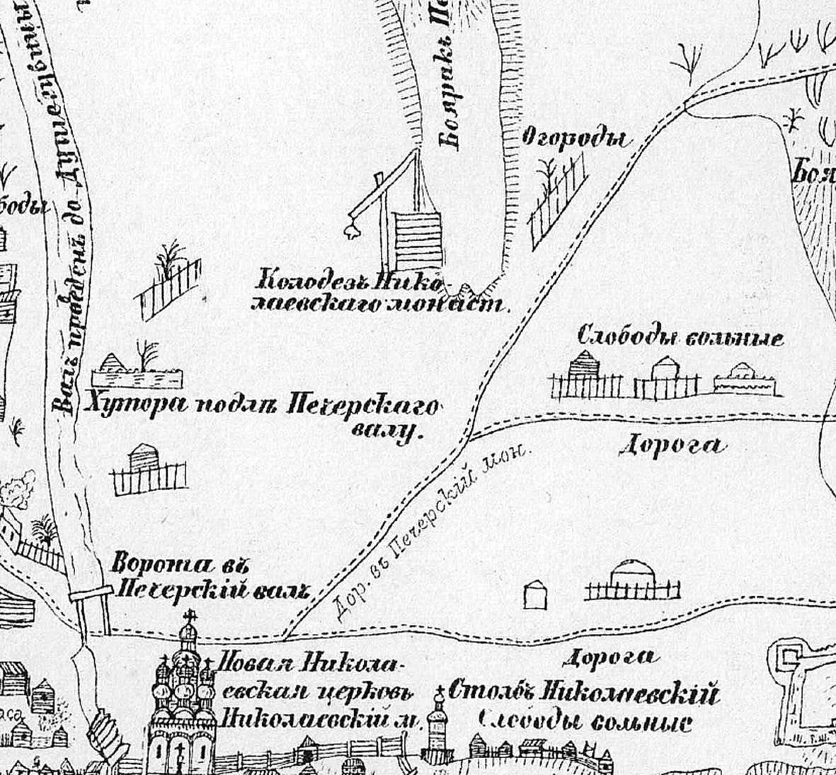 Colonel Ivan Ushakov. Plan, 1695